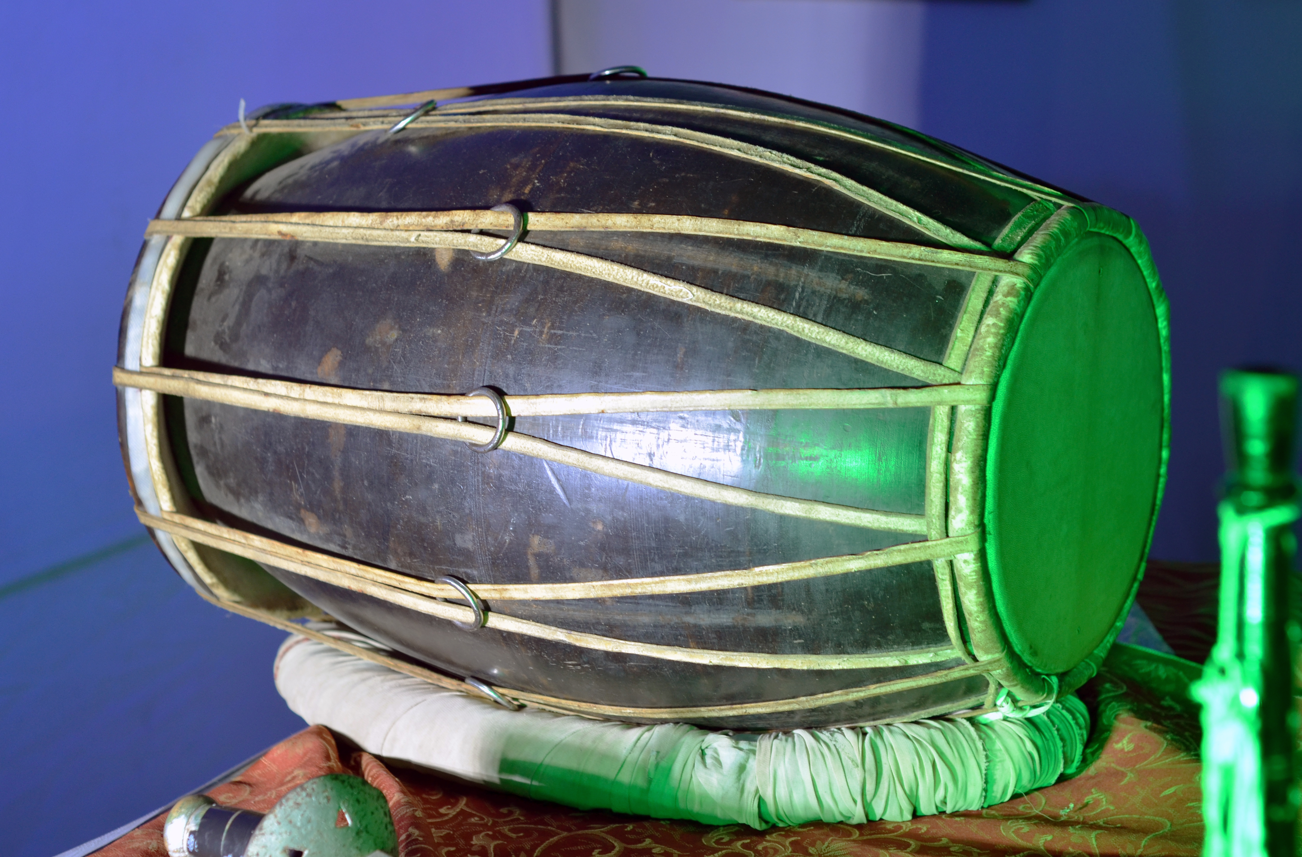 Dhola is a drum instrument used during the Chhau dance. Chhau is a martial art form from Mayurbhanj, Odisha, India and is also performed in Seraikela in Jharkhand and Purulia in West Bengal. This picture was captured during an exhibition at the Golden Jubilee Celebration of Utkal Sangeet Mahavidyalaya.